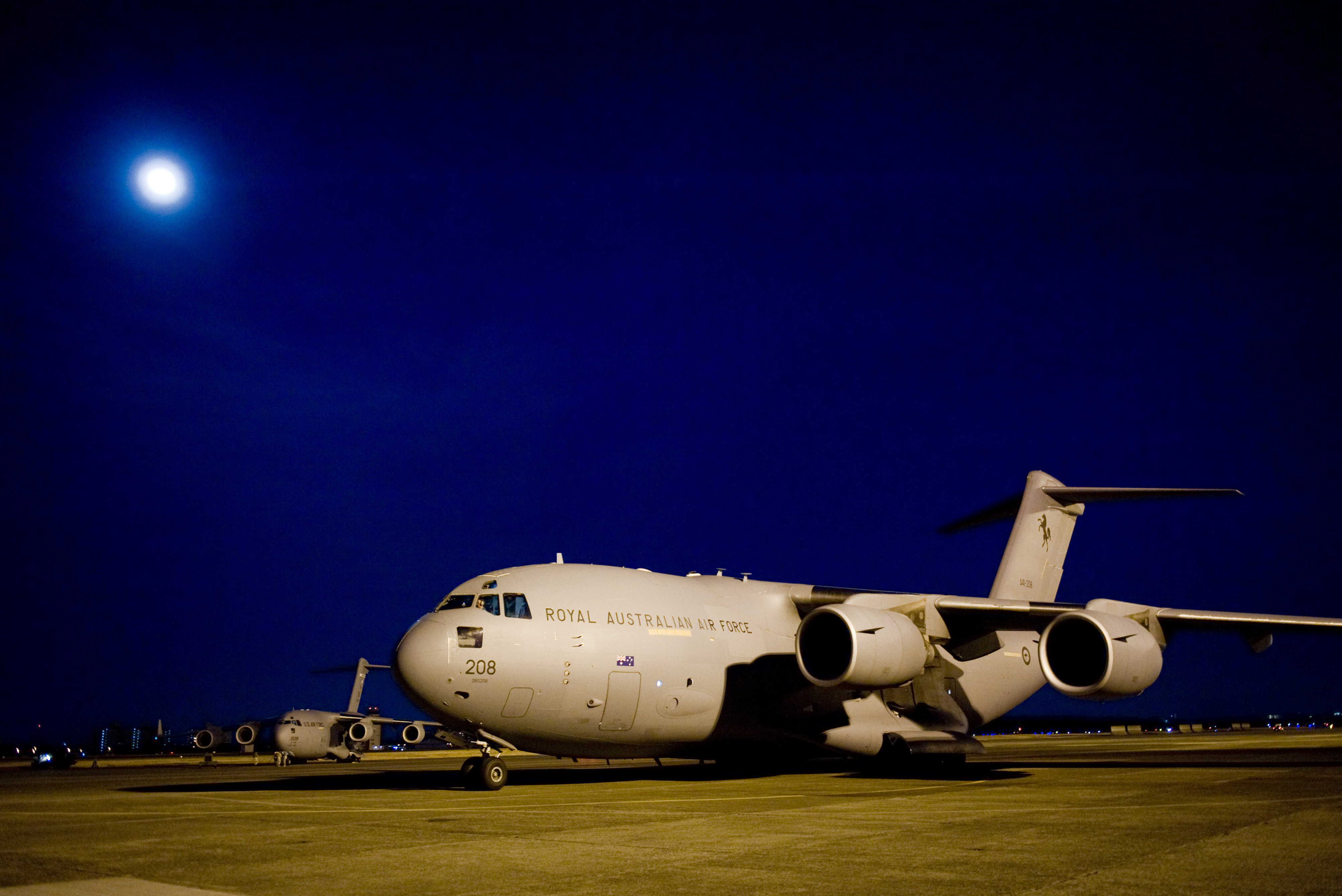 YOKOTA AIR BASE, Japan -- A C-17 Globemaster III, from the Royal Australian Air Force's 36th Airlift Squadron, sits on Yokota's flight line here Japan March 18 after flying from Okinawa. The RAAF transported the 15th Brigade of the Japan Ground Self Defense Force from Okinawa to help with Japan's earthquake and tsunami relief effort.